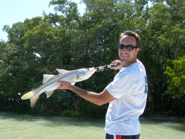 Jeff Berardelli with a snook he caught in Flamingo, FL